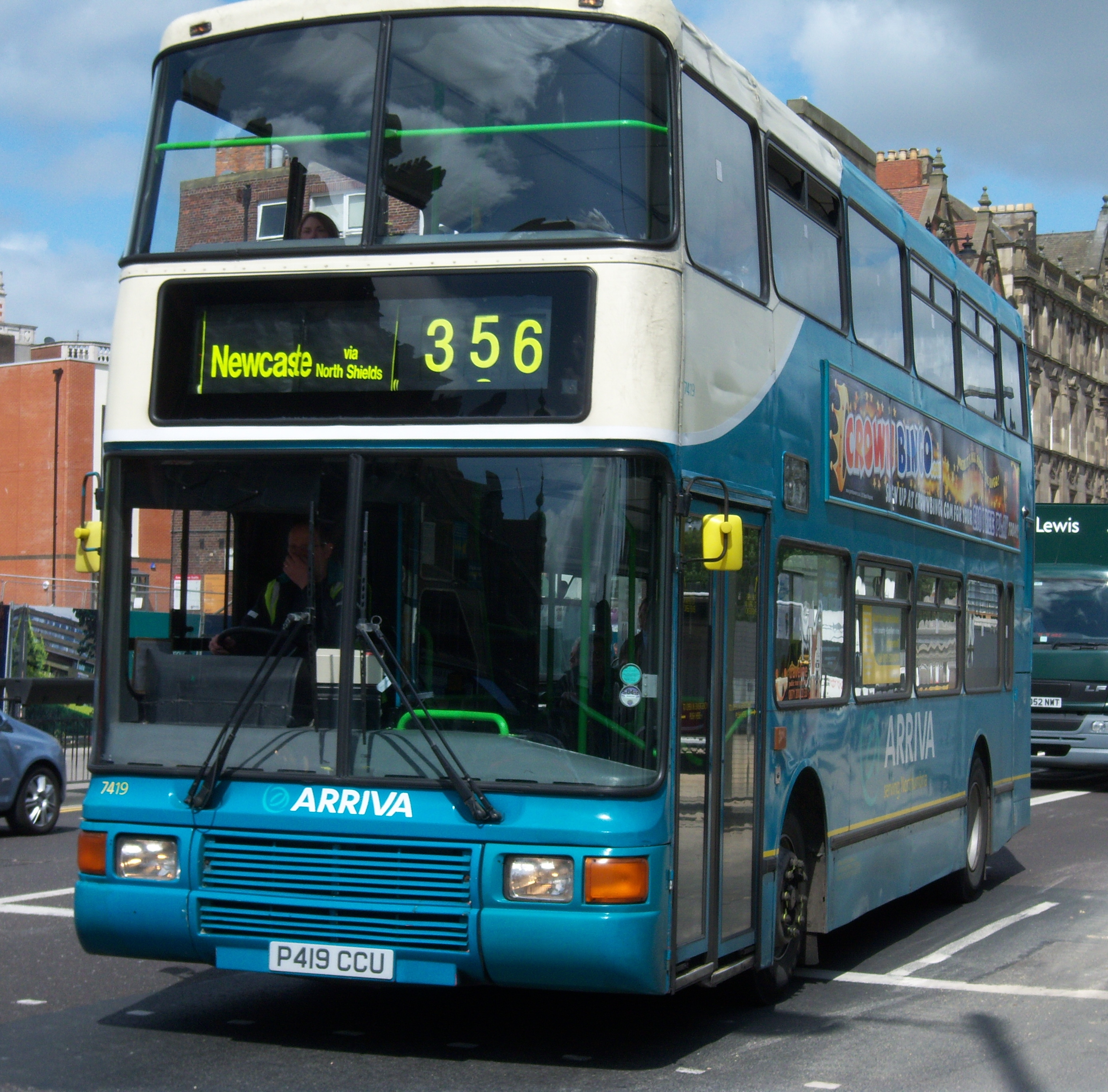 Arriva bus in Newcastle upon Tyne